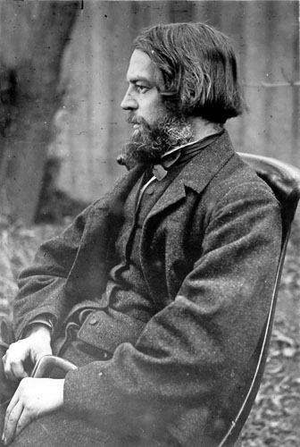 Benjamin Mountford. photographed circa 1870. Public domain by virtue of age